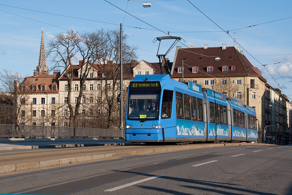 Munich tram type R3.3 on the Reichenbachbruecke